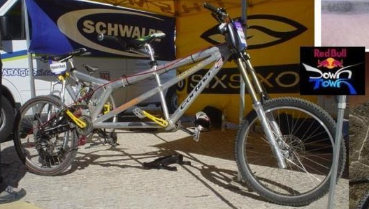 no original description. Cortina Cycles tandem bicycle.